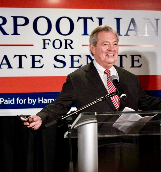 Dick Harpootlian at a campaign event for a state Senate seat in South Carolina.